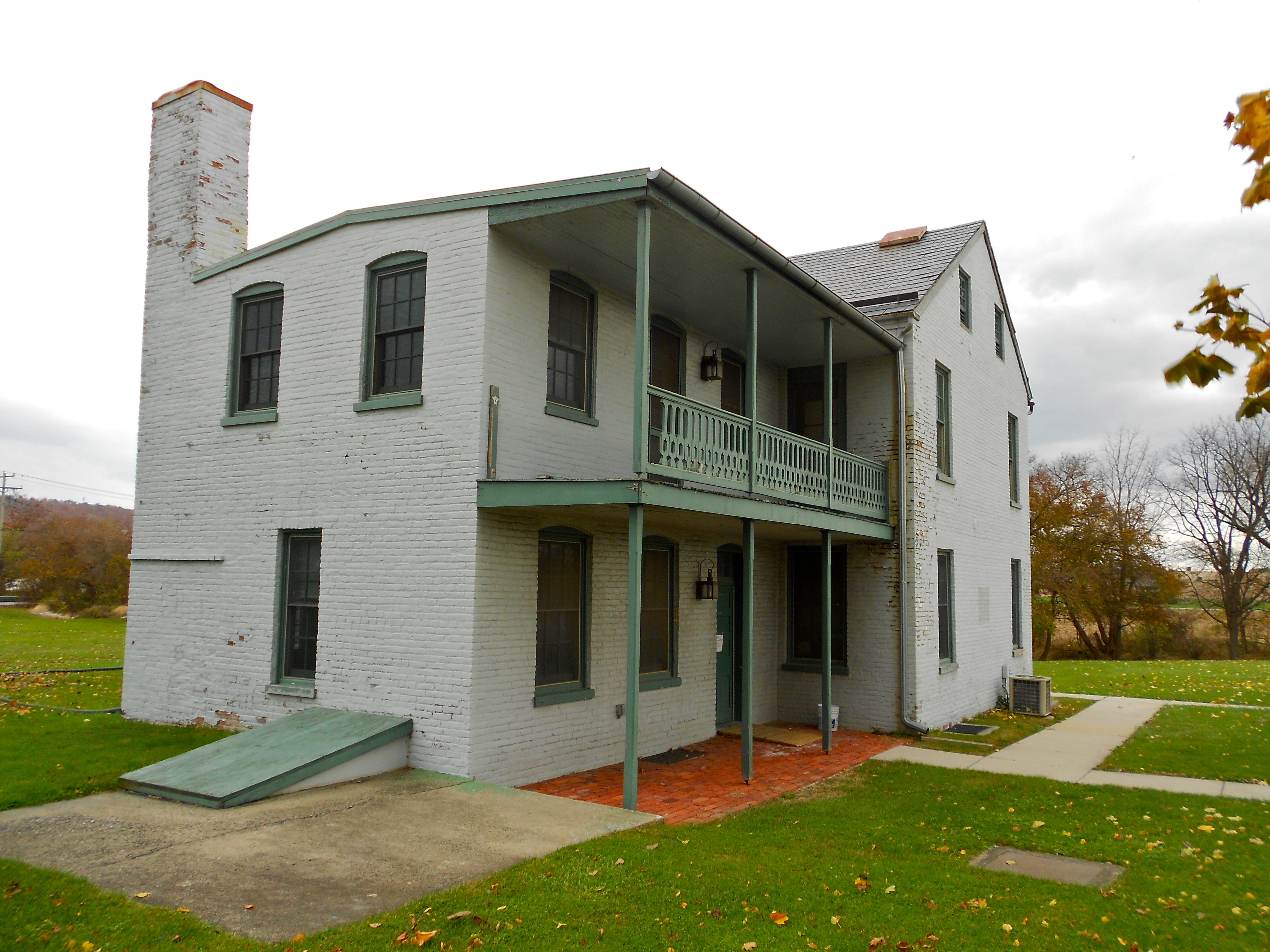 Strickler Family Farmhouse listed on the NRHP on February 21, 1991 at 1205 Williams Road, east of York in Springettsbury Township, York County, Pennsylvania. (On the property of York County Jail near the INS facility. There are 3 parts to this house, the youngest is the white dwelling in front, the middleis off to the right (white) and the oldest one is behind these two.